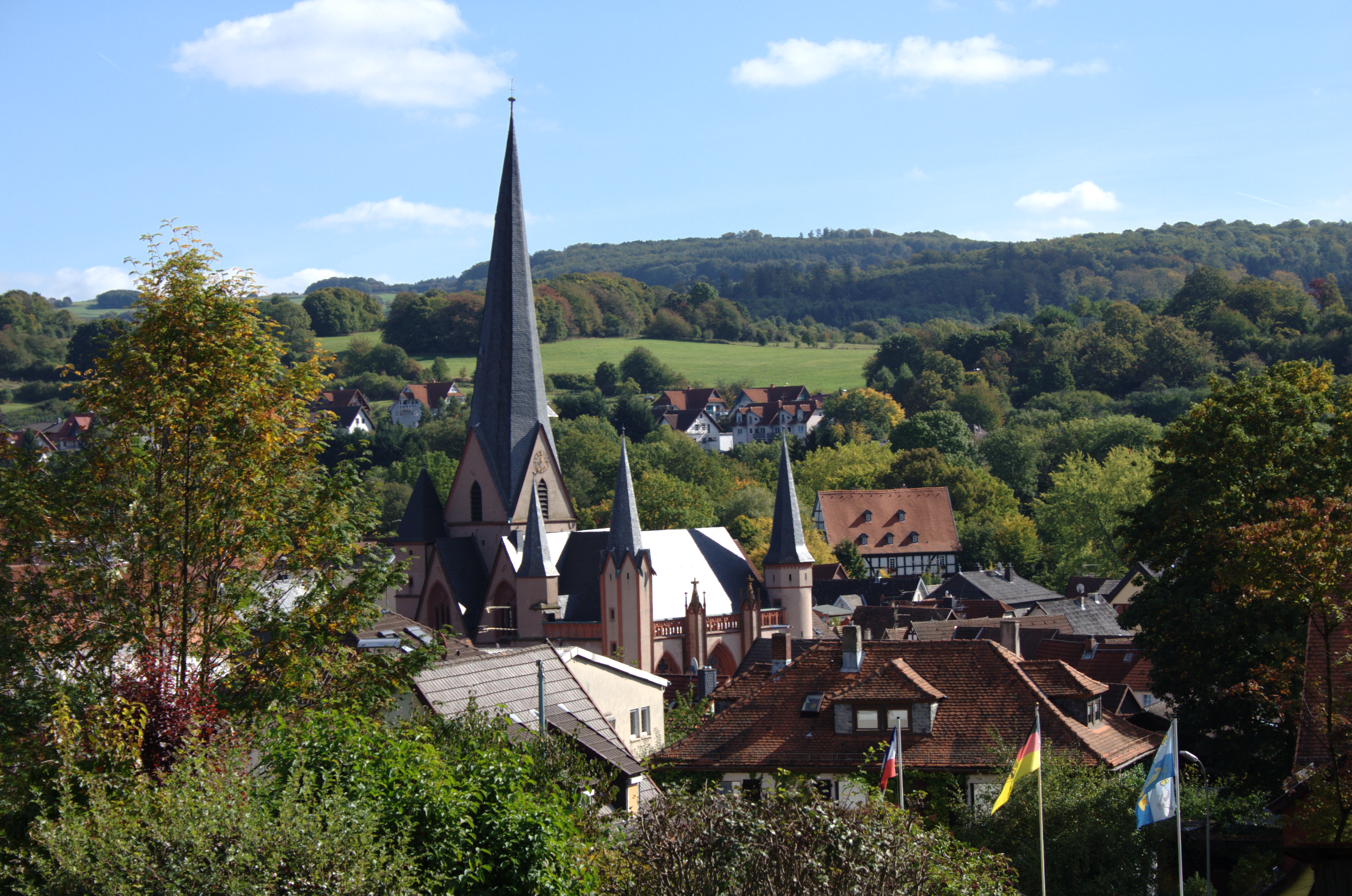 Church in Schotten / Vogelsberg / Hesse / Germany